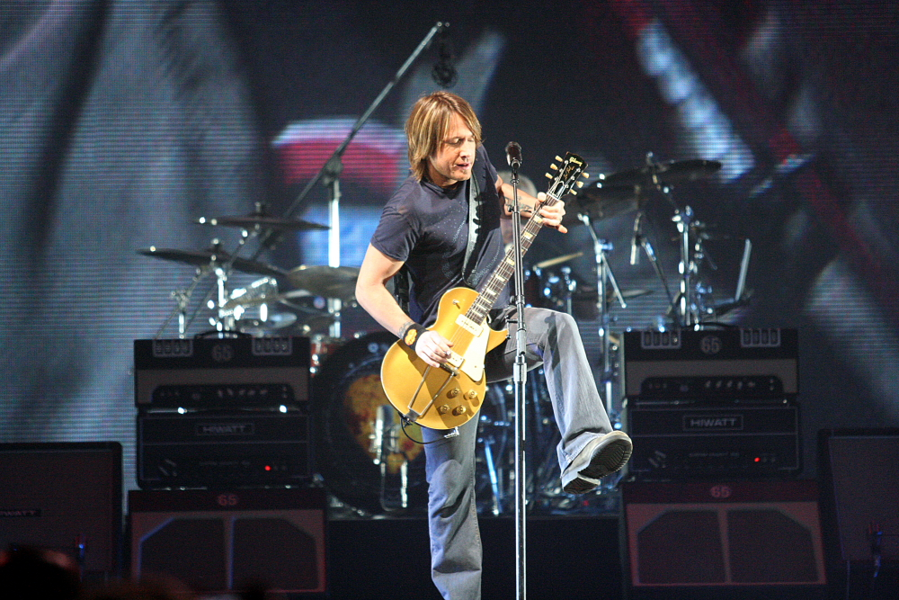 Keith Urban in concert